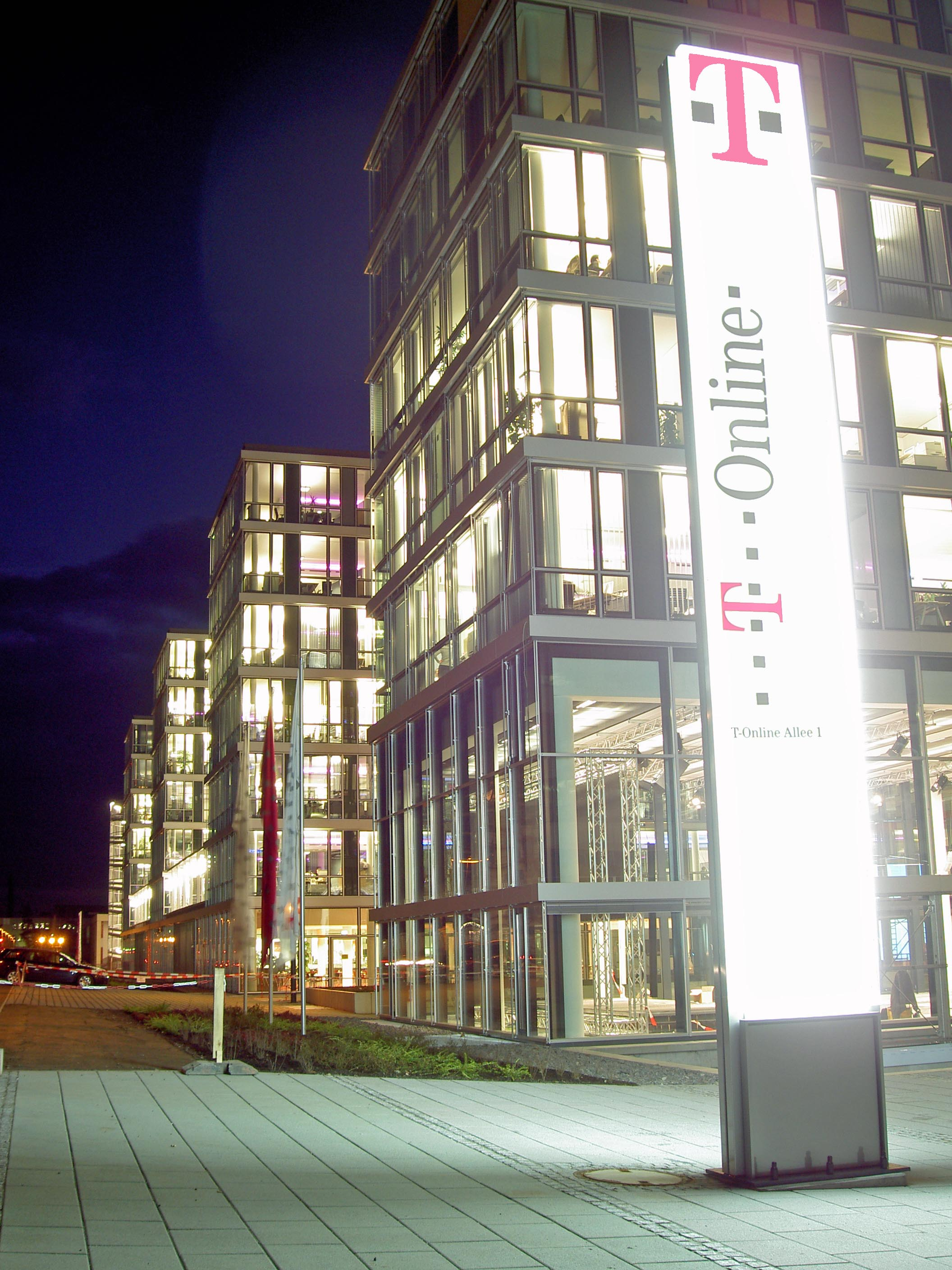 T-Online Headquarters, Darmstadt, Germany